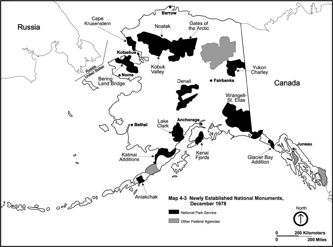 Map of the National Monuments in Alaska — that were established as federally protected areas in December 1978.